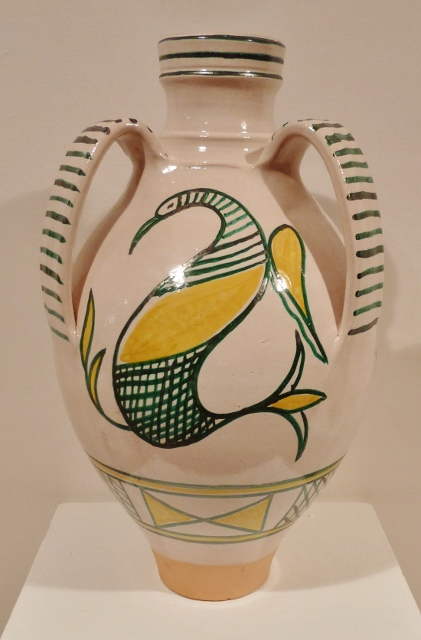 Traditional earthenware (20st century) from Faro (Oviedo, Asturias), Spain.